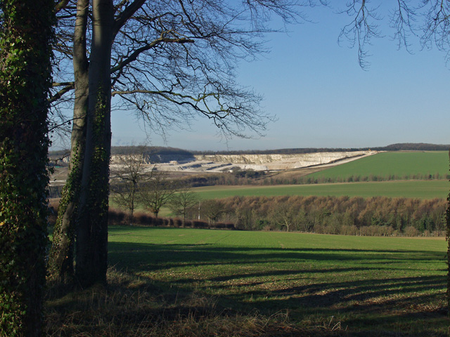 Towards Melton Bottom, Melton, East Riding of Yorkshire, England.These fields run down to Melton Bottom road. In the distance can be seen the extent of the workings at Melton Bottom Quarry.